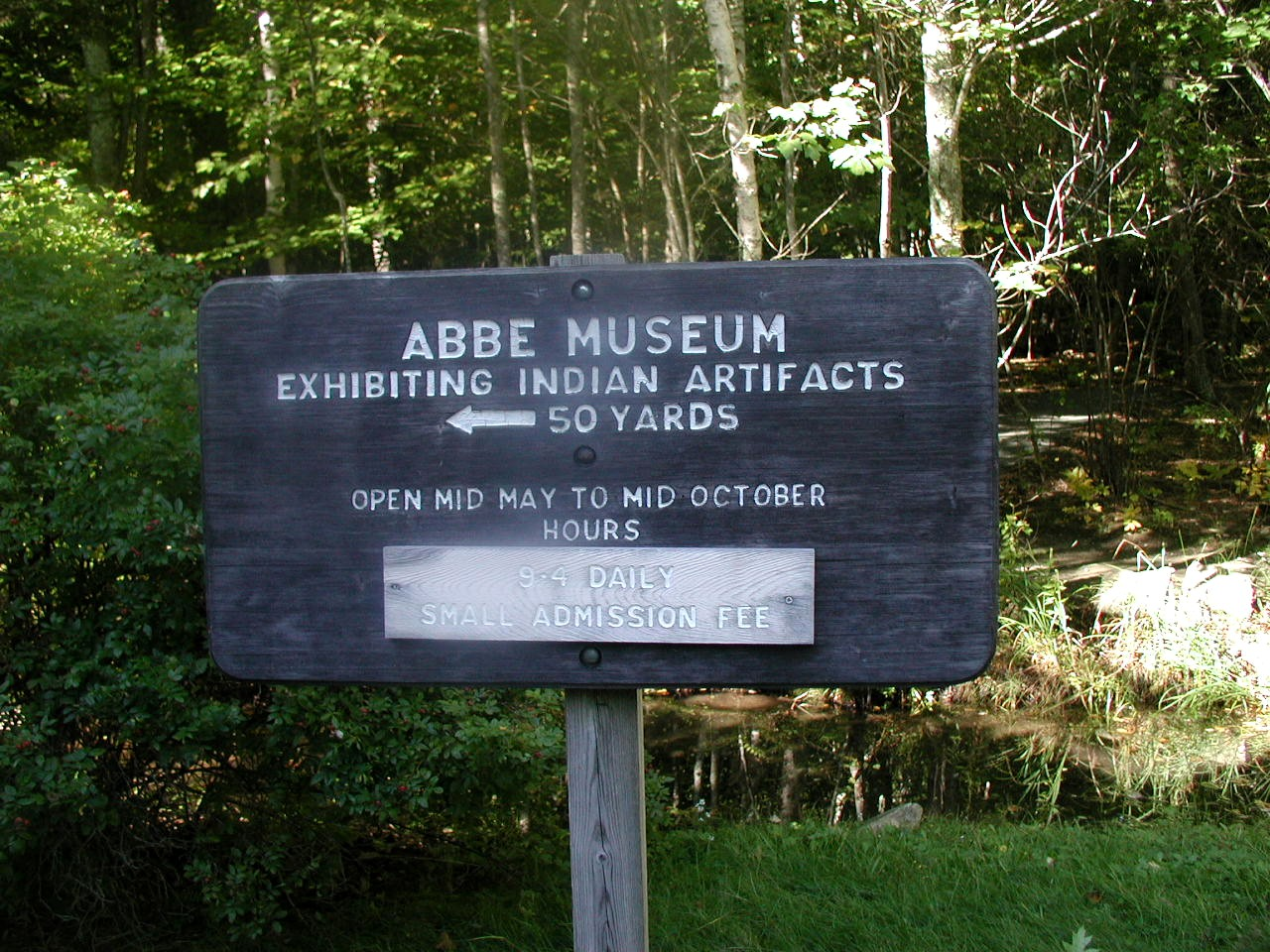 Abbe Museum - exterior